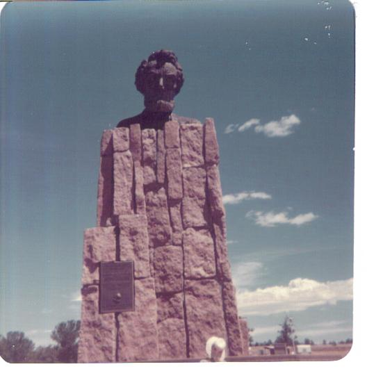 I took photo in August 1974 with Kodak camera. Abraham Lincoln Memorial Monument: bronze Robert Russin bust of Abraham Lincoln, Summit Rest Area and Visitor Center, Interstate 80 exit 323, Medicine Bow National Forest, 11 miles (18 km) southeast of Laramie, Albany County, Wyoming